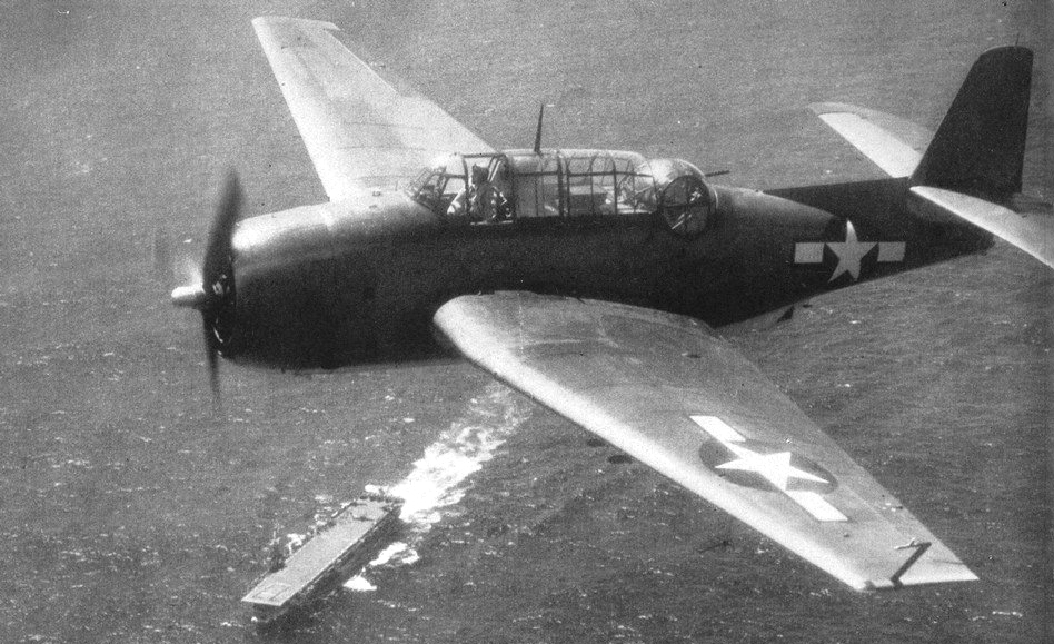 A Grumman TBF Avenger flies over the U.S. Navy escort carrier USS Marcus Island (CVE-77), circa in 1945.